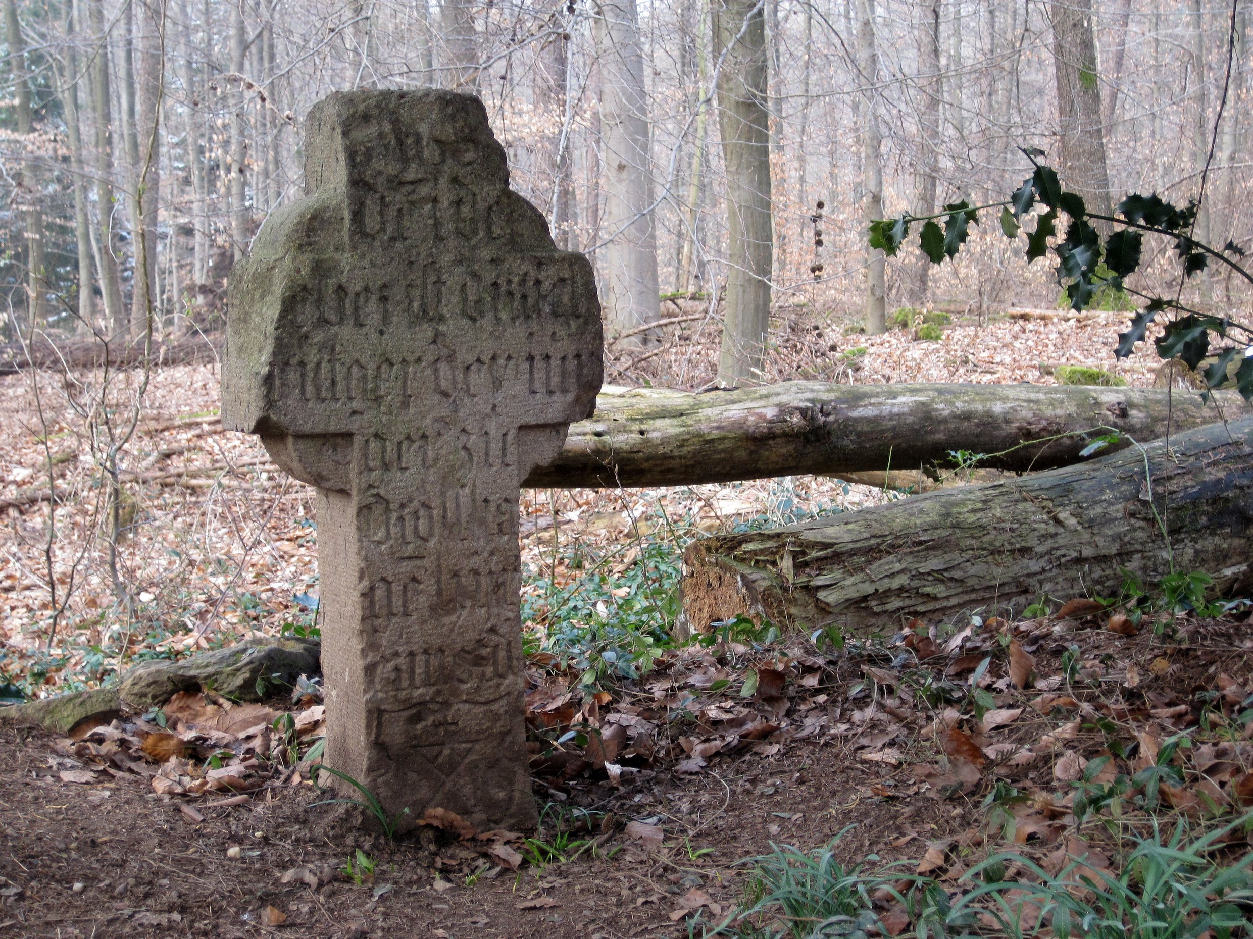 Cross stone near Brüderstraße (Königsforst near Cologne), Germany